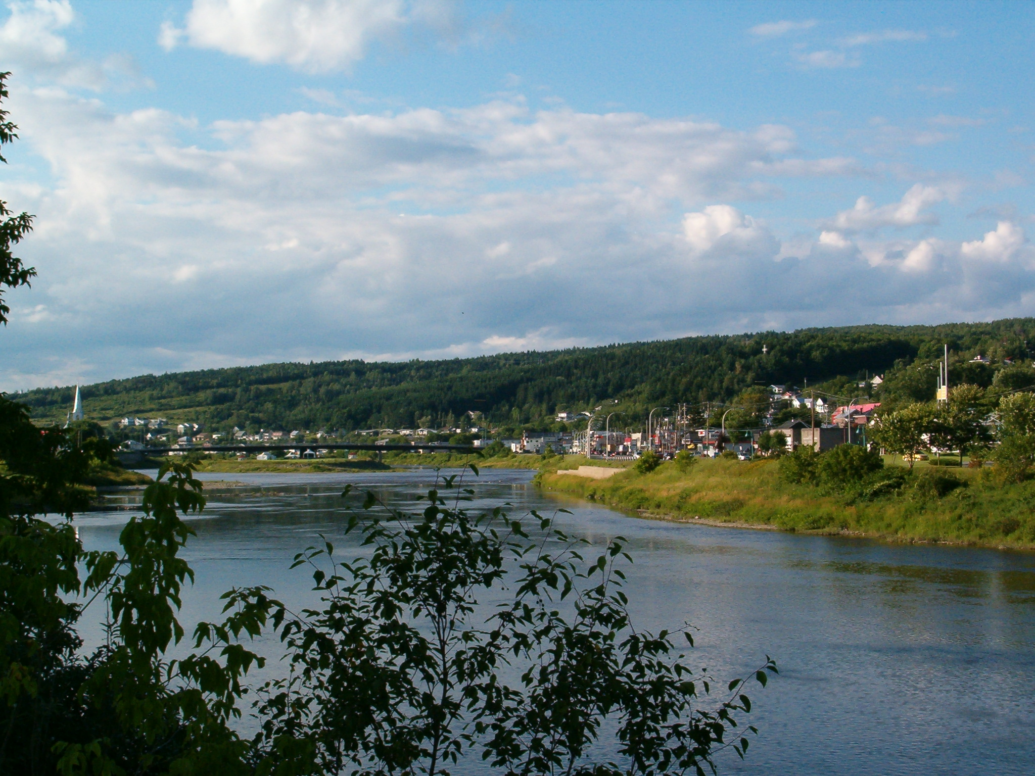 Beauceville